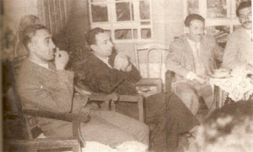 Founders of the Baath Party during its formation in Damascus - April 1947 From left to right: Salah al-Bitar, Michel Aflaq, Mansour al-Atrash.